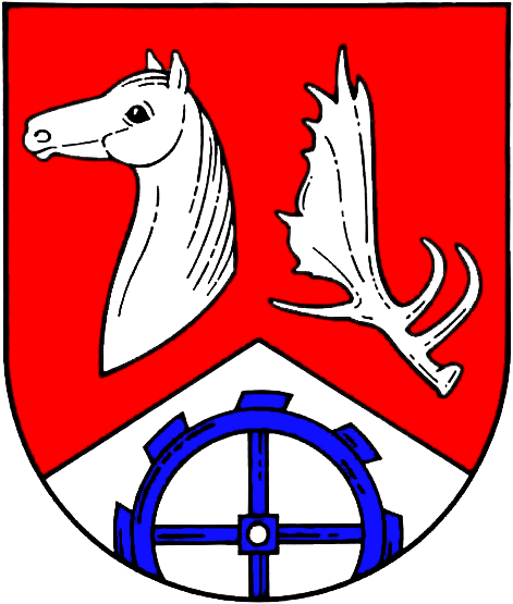 Coat of arms of the former Amt (county) Segeberg-Land in Schleswig-Holstein, Germany.